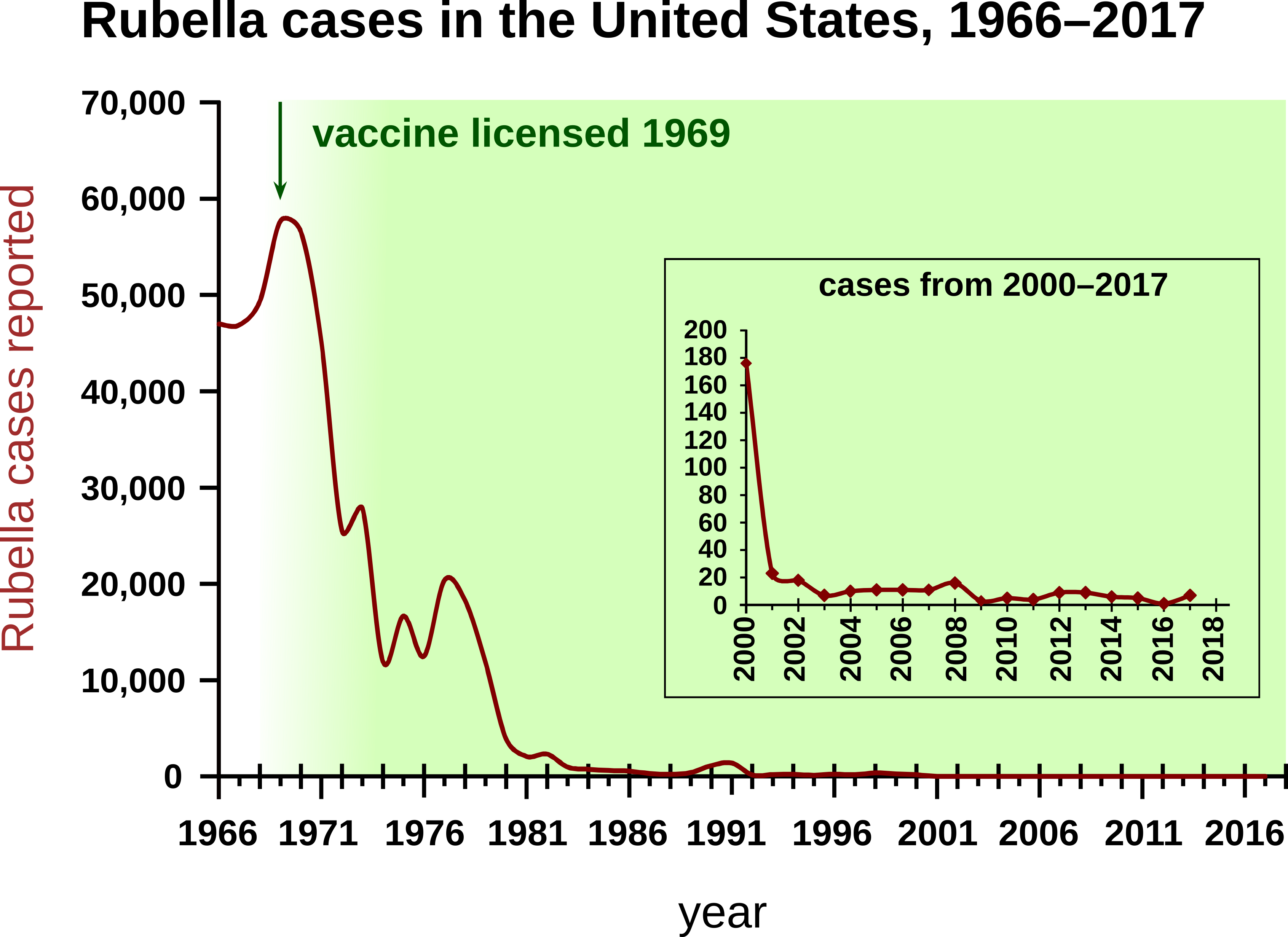 rubella (German measles) cases in the US 1966-2017 1966-2016: CDC (file) also 1966-1993: MMVR 1993: 2017: WHO